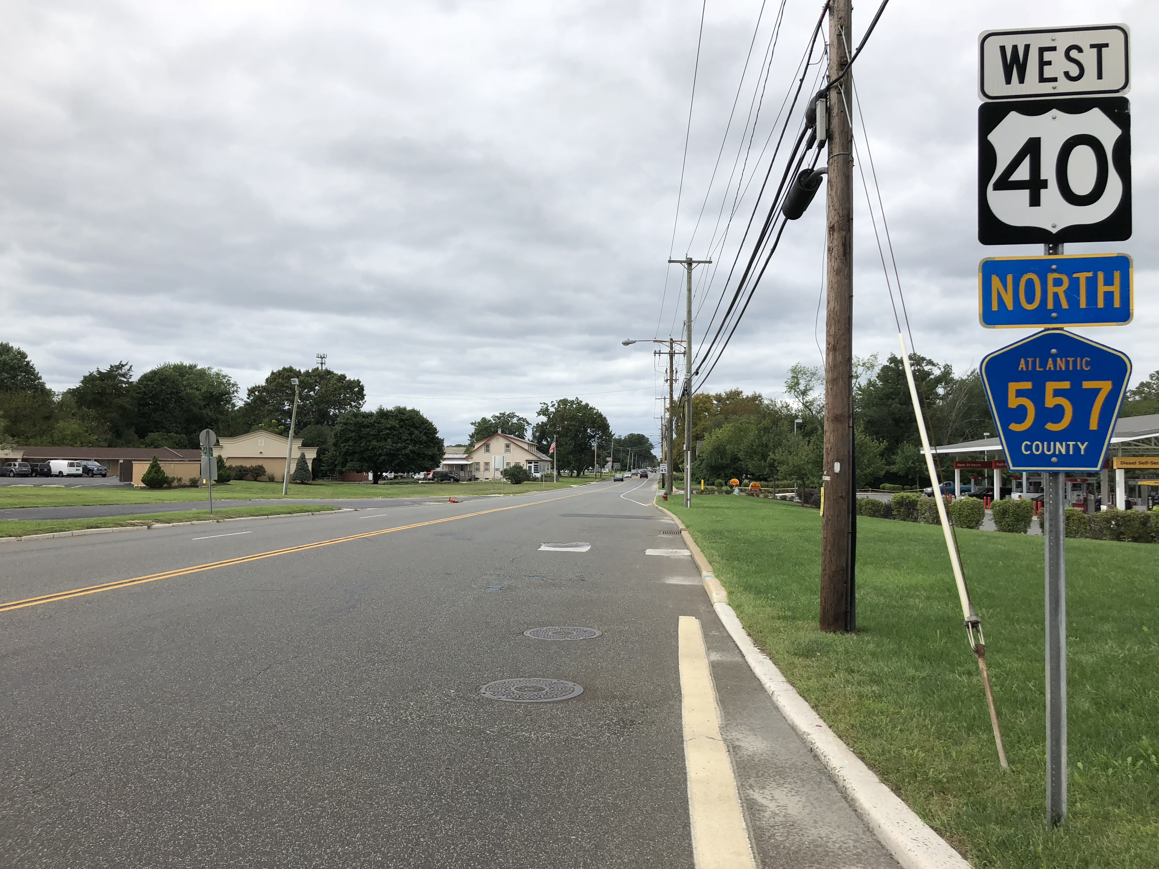 View west along U.S. Route 40 and north along Atlantic County Route 557 (Harding Highway) just northwest of New Jersey State Route 54 (Blue Anchor Road)/Atlantic County Route 619 (Wheat Road) in Buena, Atlantic County, New Jersey